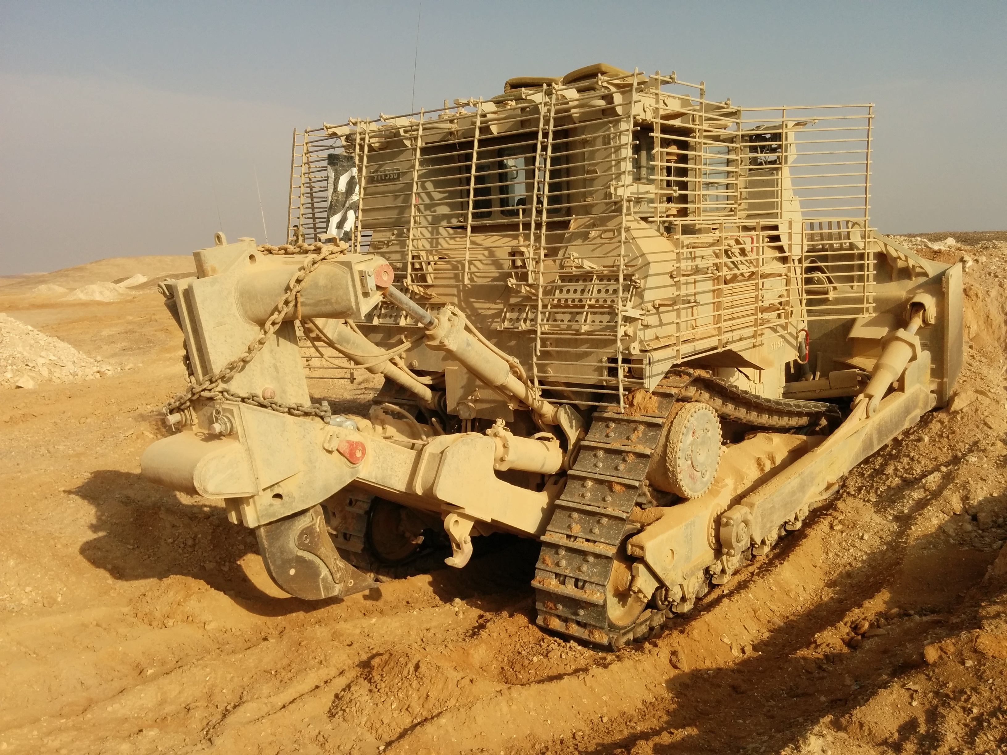 IDF Caterpillar D9R armored bulldozer